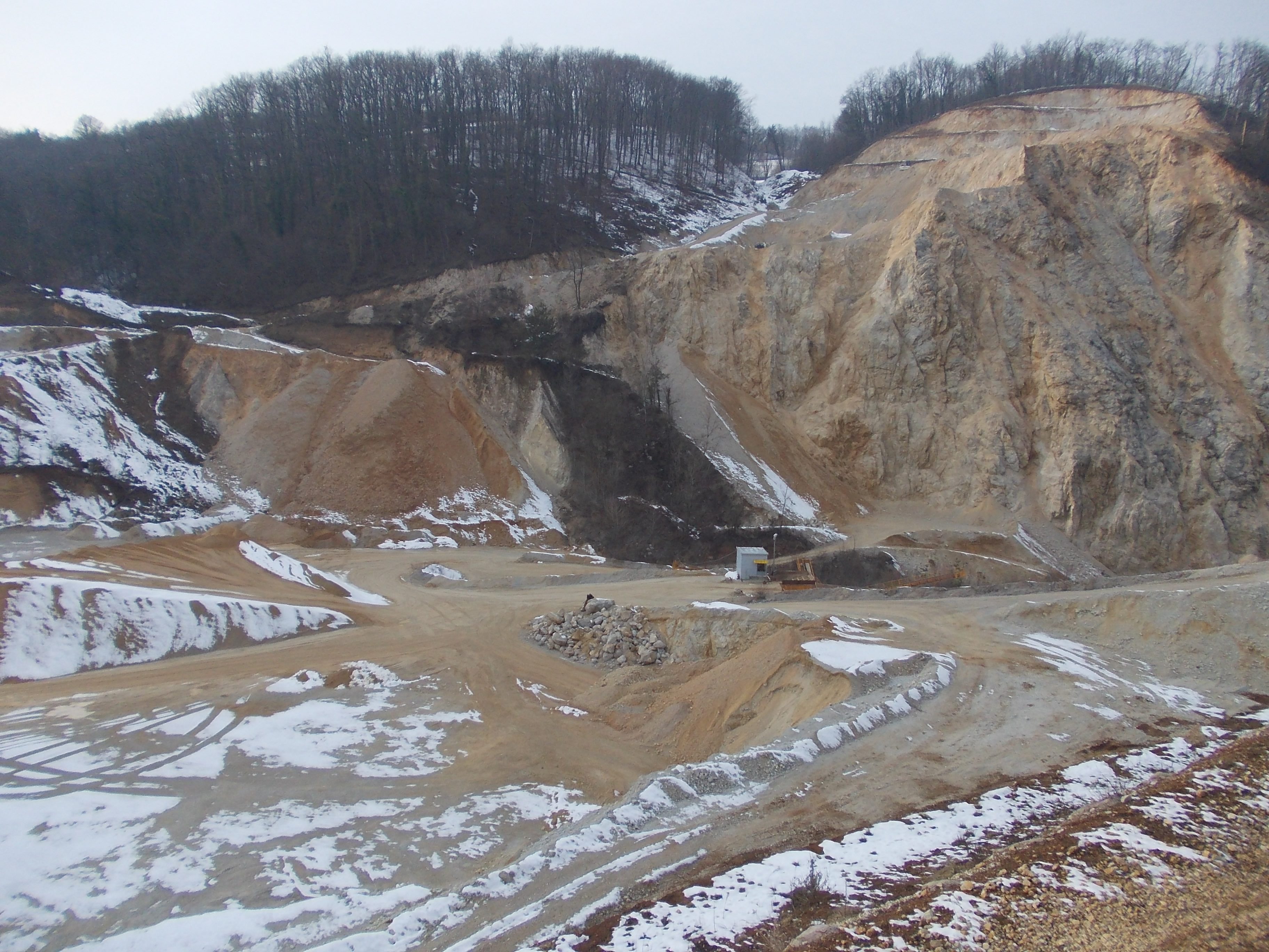 Gunte Quarry